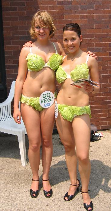 PETA "Lettuce Ladies" in the Short North, Columbus, Ohio.